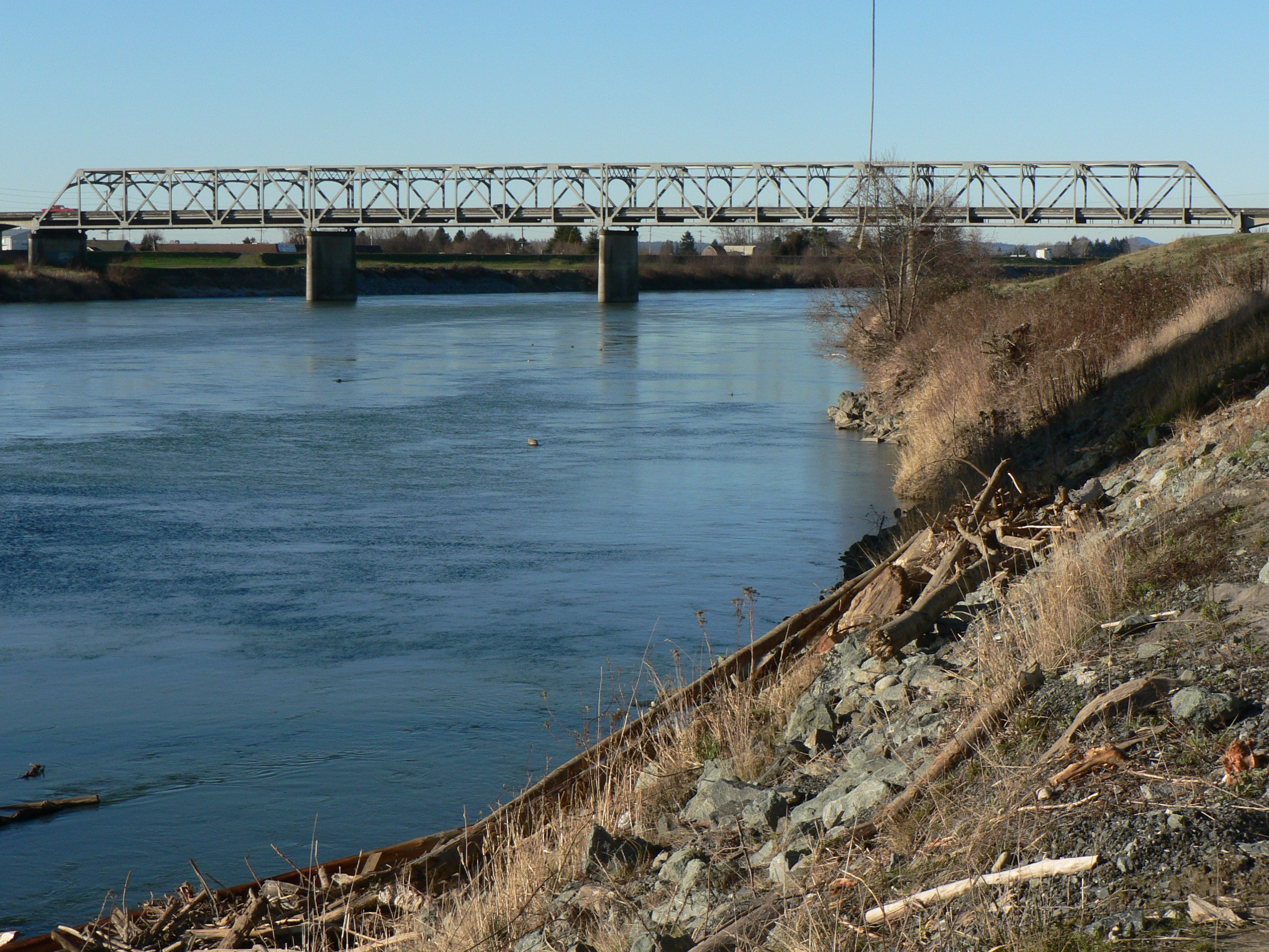 I-5 bridge (before 2013 collapse); Skagit River; dike on north bank (right) Viewpoint location: E Whitmarsh Road, Burlington, Washington, from near the north end of the Riverside Bridge on S. Burlington Boulevard Viewpoint elevation: 9 m (30 ft) View direction: West-southwest